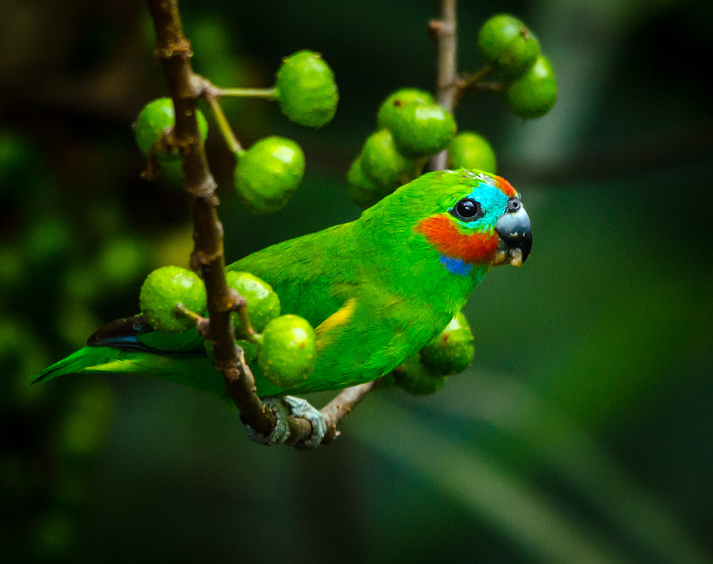 A male Double-eyed Fig Parrot in Mossman Gorge, Daintree National Park, Queensland, Australia. This subspecies is also called Macleay's Fig Parrot or Red-browed Fig Parrot.